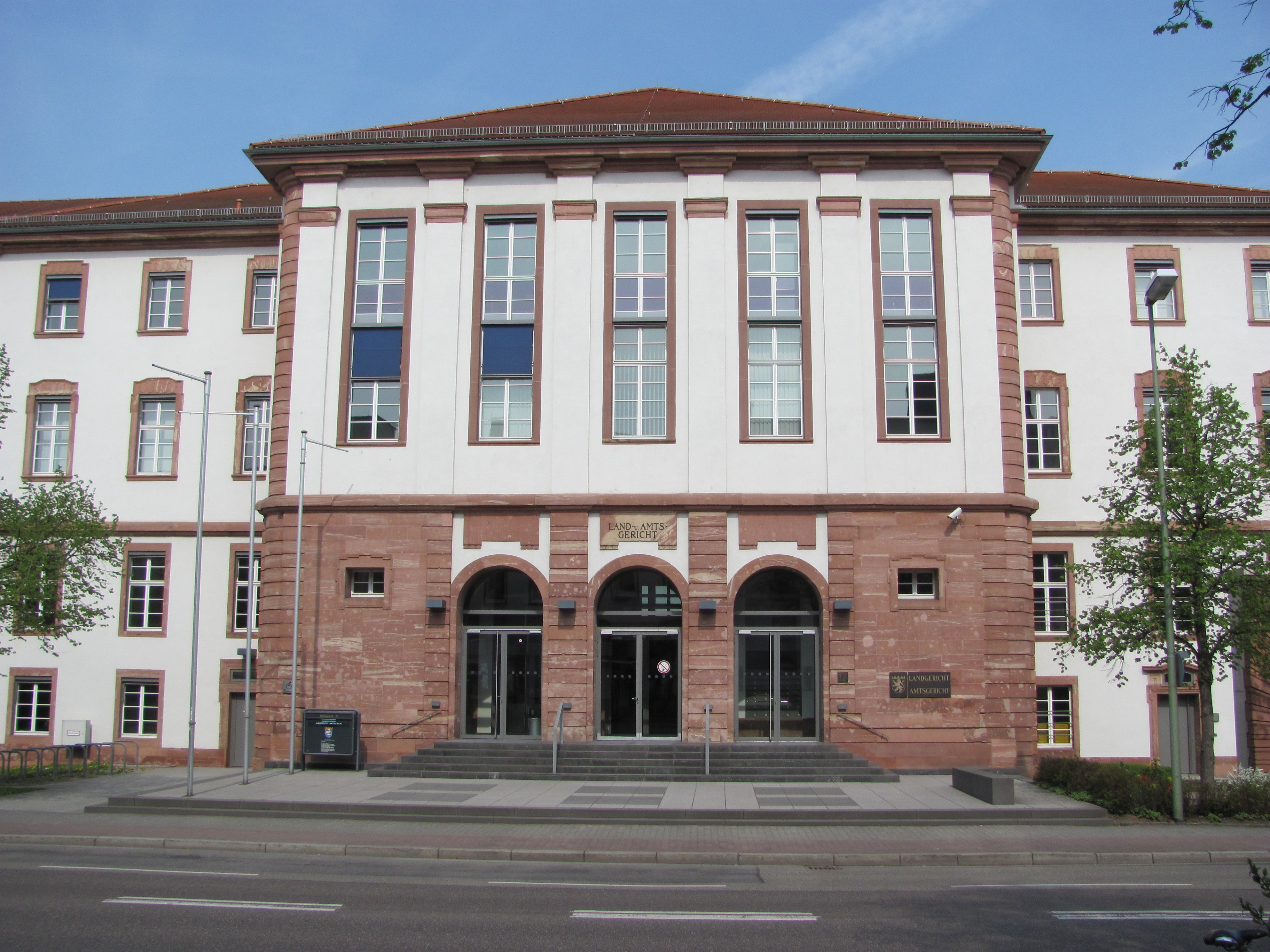 Court building Hanau